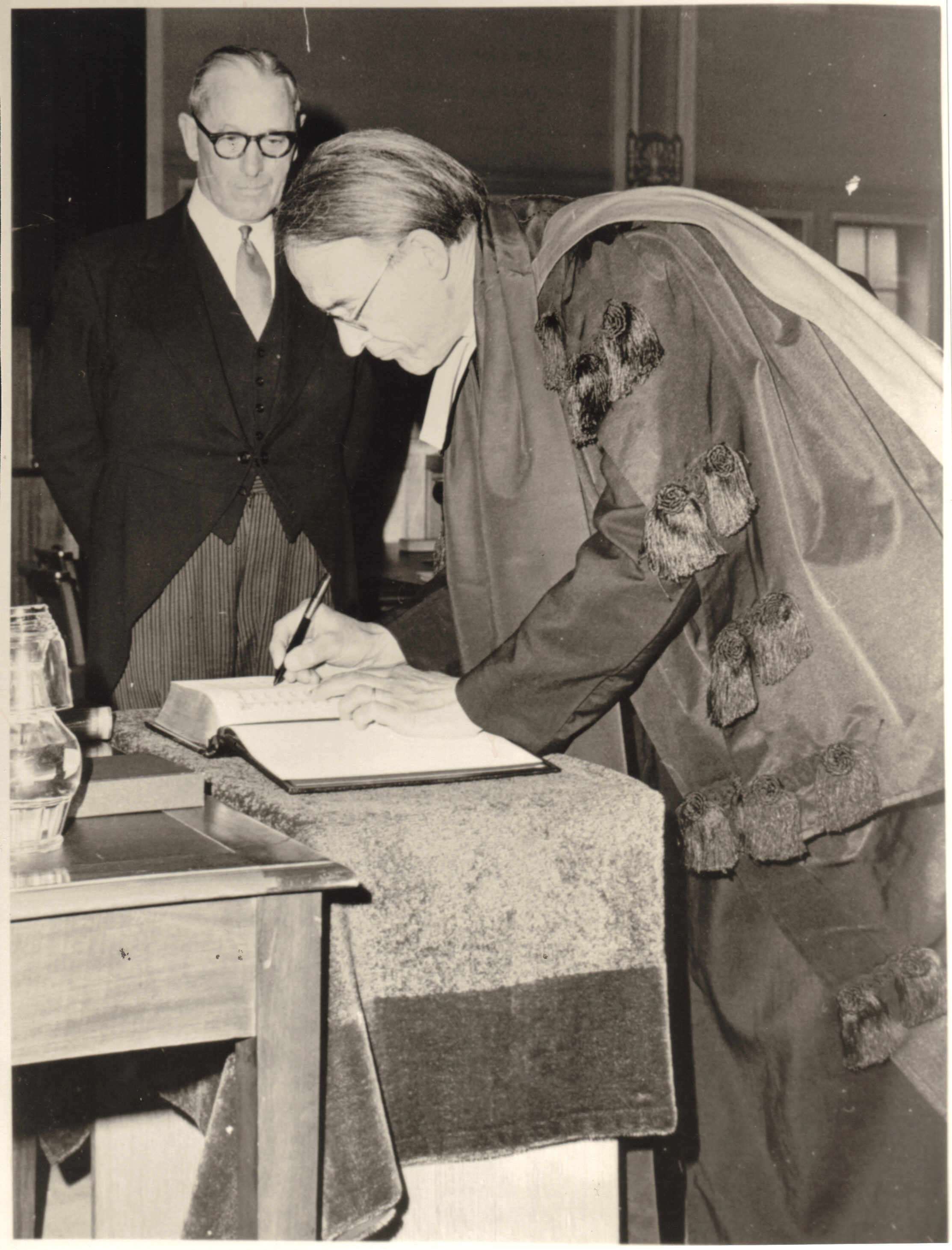 yes